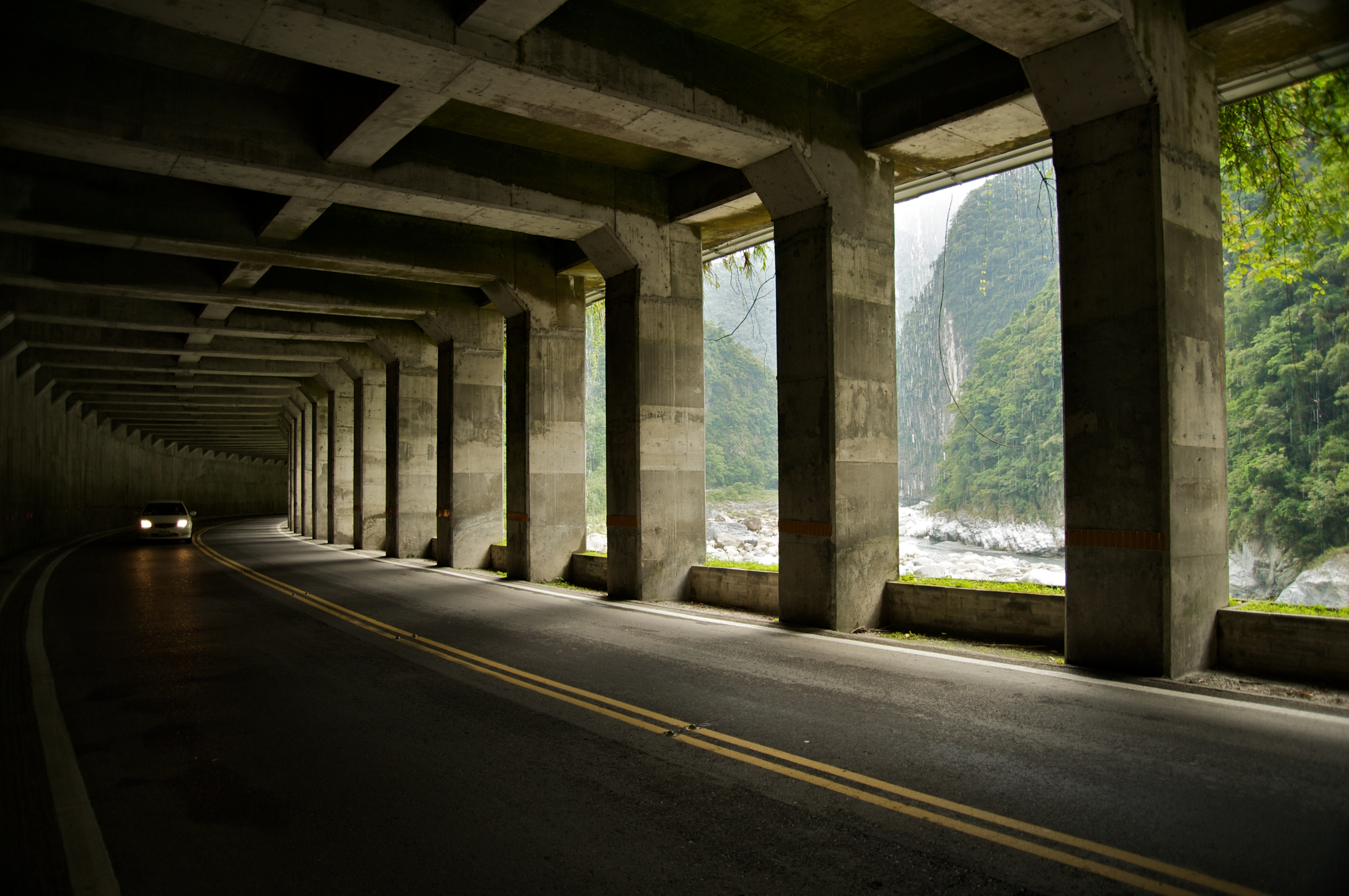 Sections of the Central Cross-Island Highway at Taroko Gorge are covered to protect vehicles from waterfalls